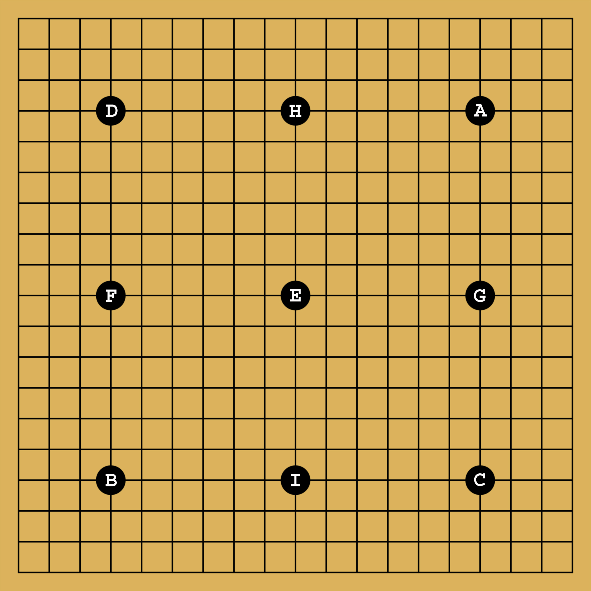 The positions for the compensation stones in the game of go. Handicap stones must be put on hoshis in the following order: 2 stones, stones to points A and B 3 stones, stones to points A, B, C 4 stones, stones to points A, B, C, D 5 stones, stones to points A, B, C, D, E 6 stones, stones to points A, B, C, D, _, F, G 7 stones, stones to points A, B, C, D, E, F, G 8 stones, stones to points A, B, C, D, _, F, G, H, I 9 stones, stones to points A, B, C, D, E, F, G, H, I When Black is only one rank weaker (also known as one stone weaker, due to the close relationship between ranks and the handicap system) he or she is only given the advantage of playing Black.